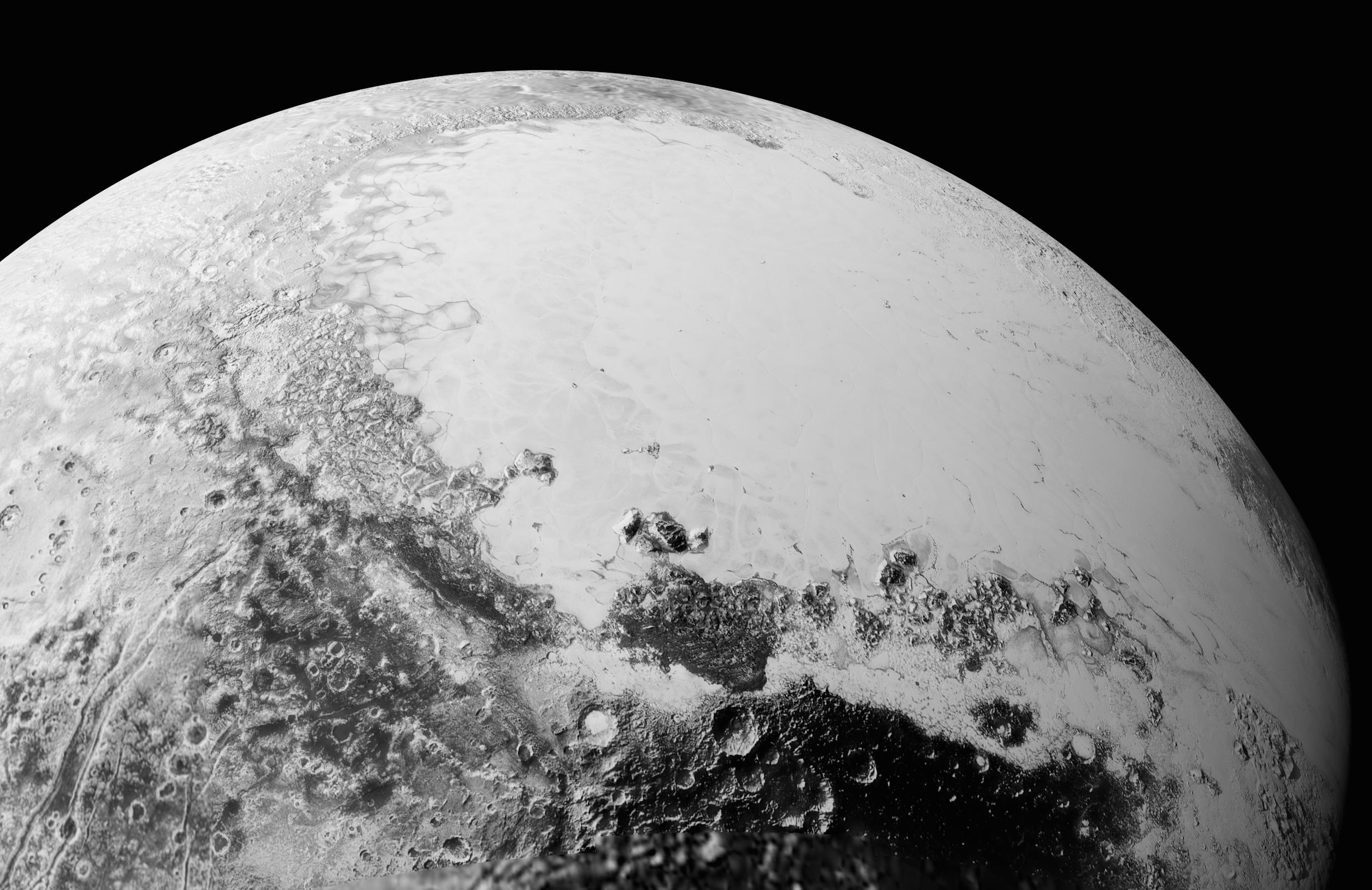 September. 10, 2015 - Pluto As Seen By New Horizons Related images at the following link: Pluto This synthetic perspective view of Pluto, based on the latest high-resolution images to be downlinked from NASA’s New Horizons spacecraft, shows what you would see if you were approximately 1,100 miles (1,800 kilometers) above Pluto’s equatorial area, looking northeast over the dark, cratered, informally named Cthulhu Regio toward the bright, smooth, expanse of icy plains informally called Sputnik Planum. The entire expanse of terrain seen in this image is 1,100 miles (1,800 kilometers) across. The images were taken as New Horizons flew past Pluto on July 14, 2015, from a distance of 50,000 miles (80,000 kilometers).